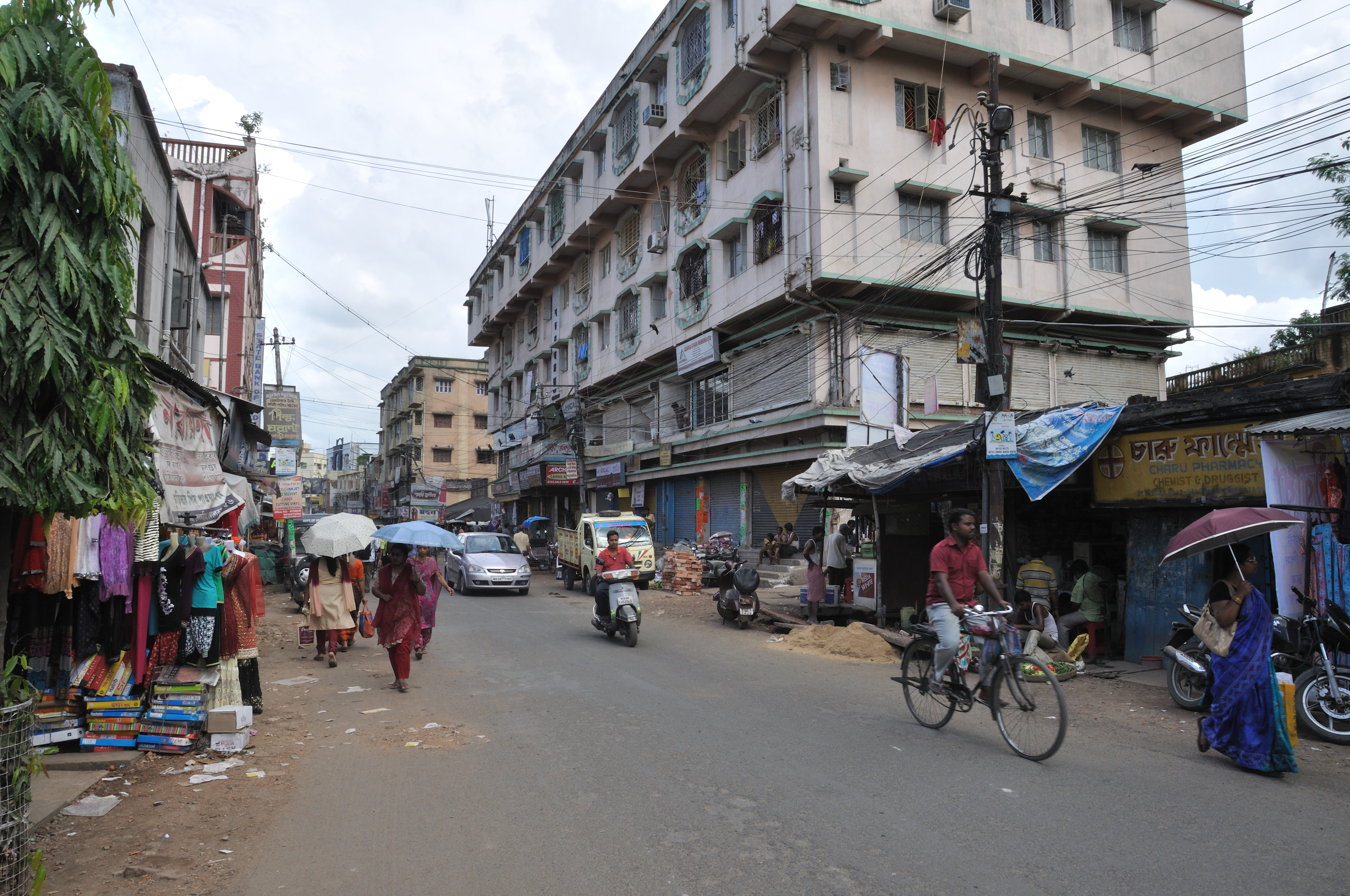 Feeder road is one of the main roads in Belghoria. Feeder road connects Belghoria railway station at the east to Barrackpore Trunk Road to the west.